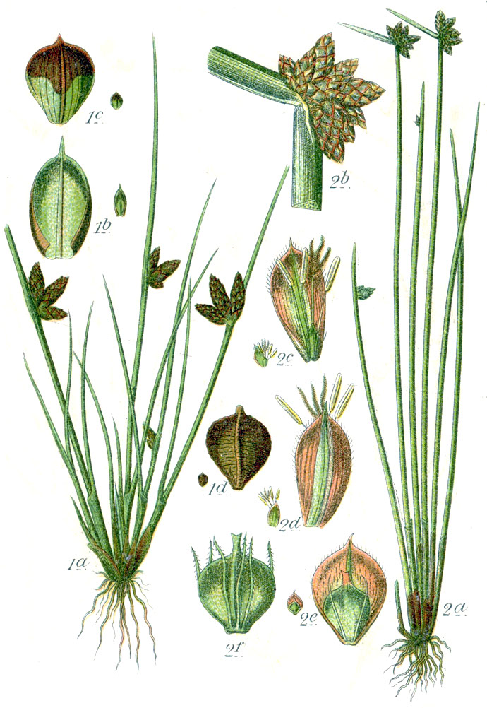 1. Schoenoplectiella supina (L.) Lye, syn. Schoenoplectus supinus (L.) Palla, Cyperus supinus (L.) Missbach & E.H.L.Krause 2. Cyperus laevigatus L., syn. Cyperus mucronatus L. FloraWeb.de: Stachelspitzige Teichsimse, Schoenoplectus mucronatus (L.) Palla ??? Original Caption 1. Lager-Simse, Cyperus supinus 2. Dolch-Simse, C. mucronatus